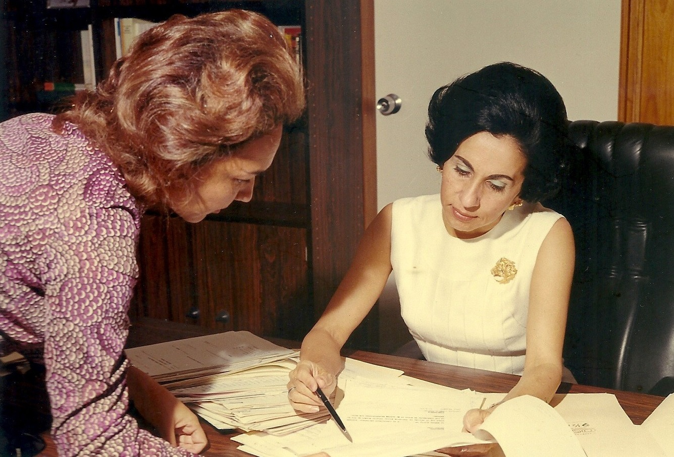 Alicia Pietri, junto a Evelia Serrano, en el Palacio Blanco, durante sus funciones como presidenta de la Fundación del Niño.